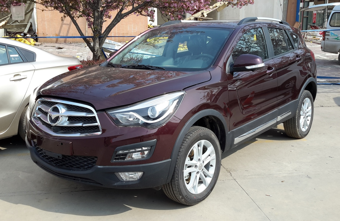 Haima S5 photographed in Xi'an, Shaanxi province, China.